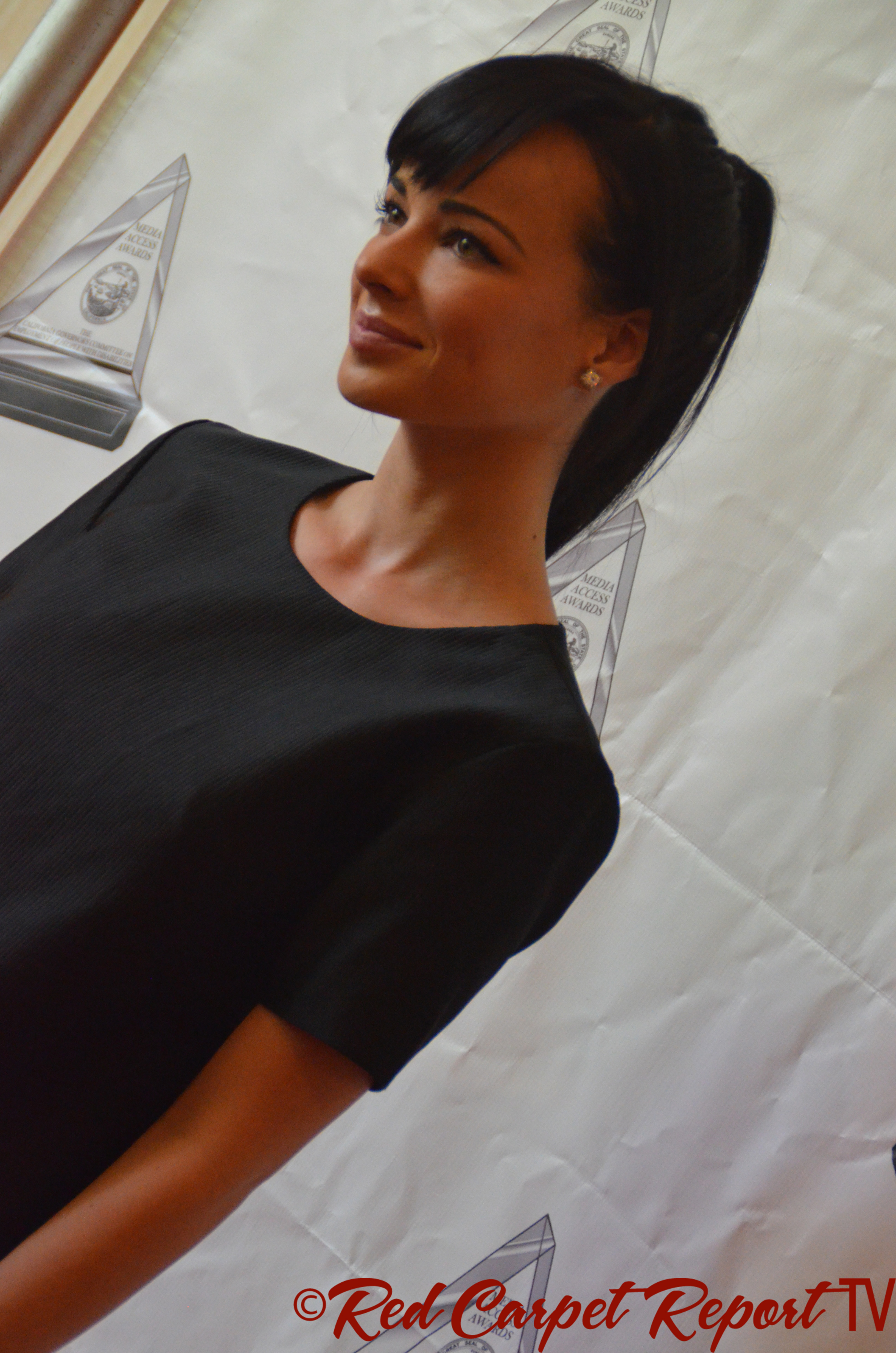 Actress Ashley Rickards at the 2014 Media Access Awards on October 16, 2014